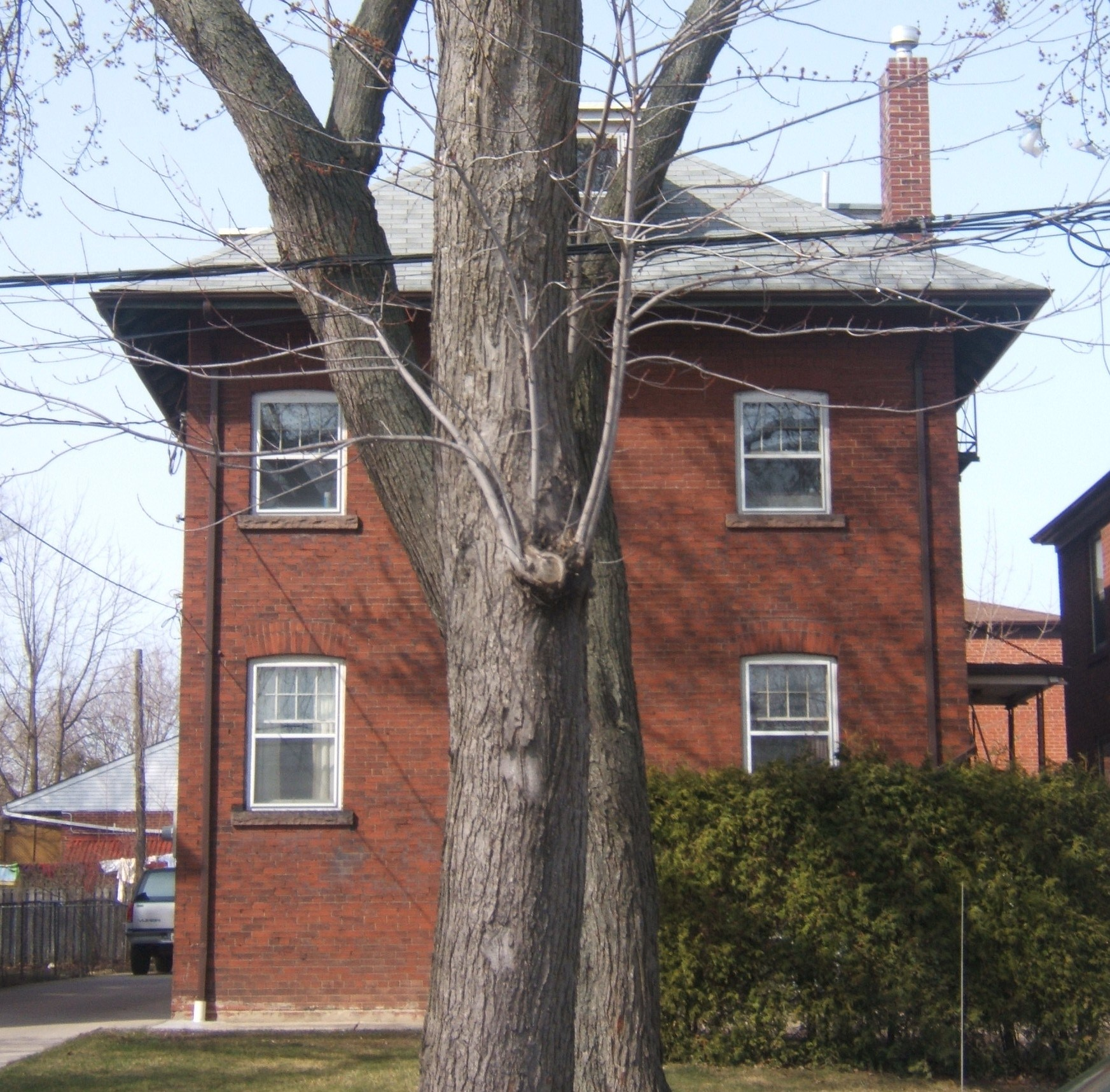 Photograph of St. Leos Roman Catholic Church Old Rectory Station Rd., Mimico